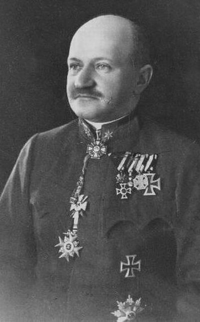 Béla Berzeviczy (1870–1922)